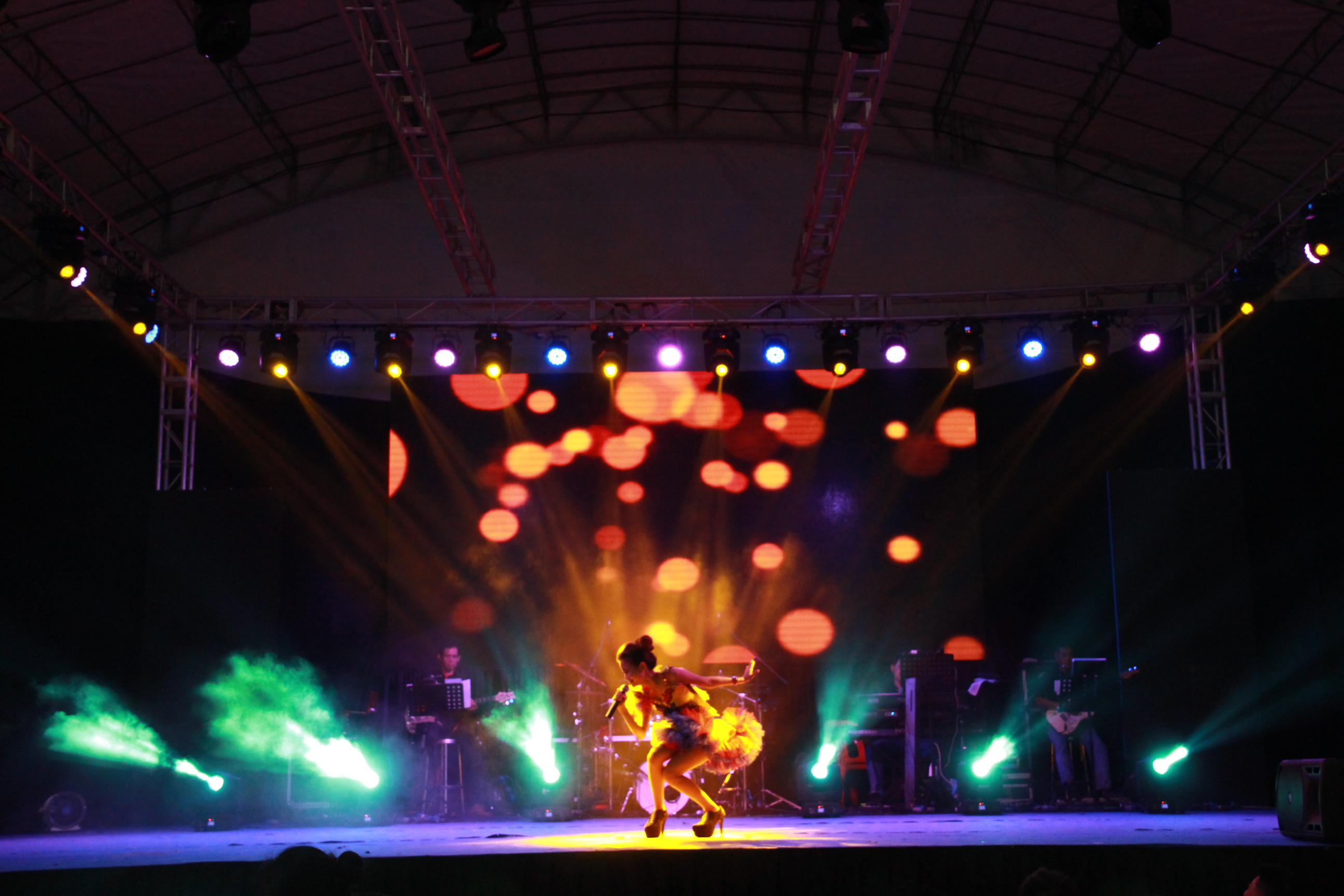 A female getai performer in Singapore. This is a typical stage setup for major getai events.